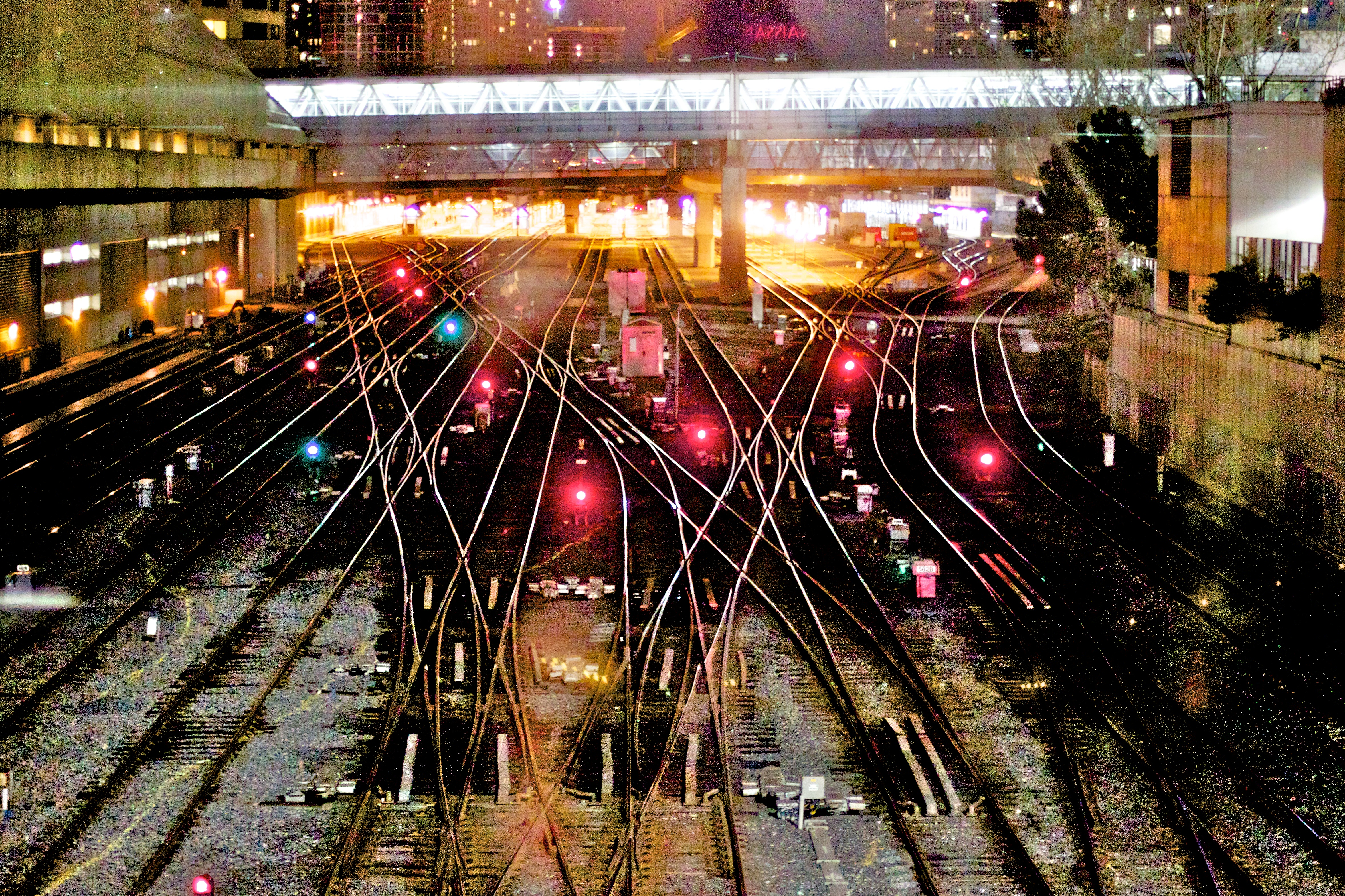 View of the rail corridor in downtown Toronto, near the Rogers Centre, west of Union Station. Toronto, Ontario, Canada.